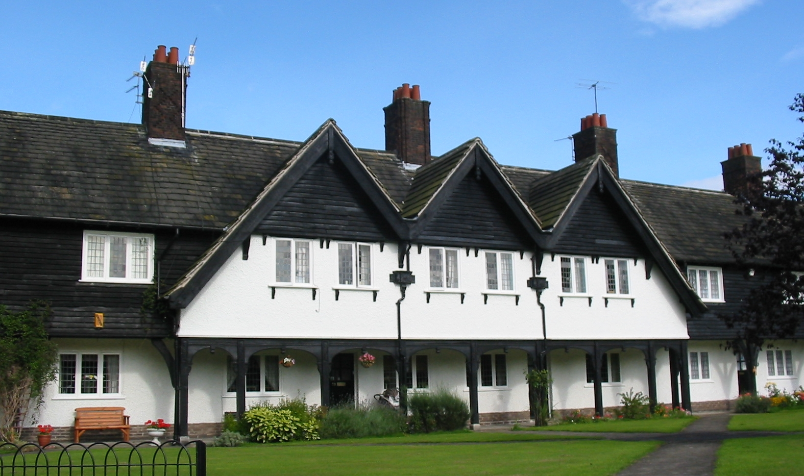 Liverpool